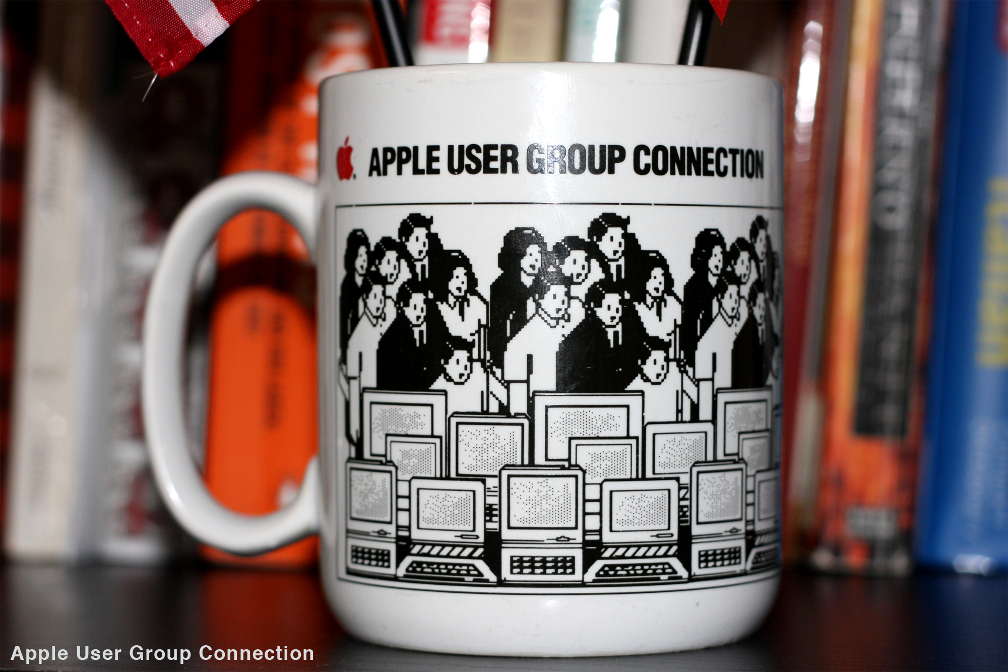 This old Apple coffee mug served as as a tribute to the Advisory Council Ellen Petry brought together to talk with Apple about ways of working with User Groups at the time, in 1986.